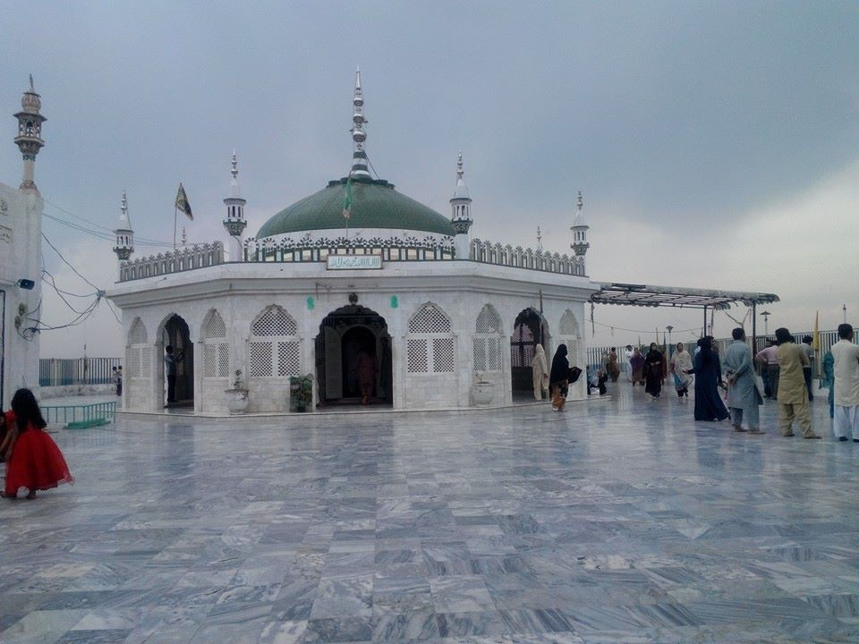 Kalar Kahar Shrine